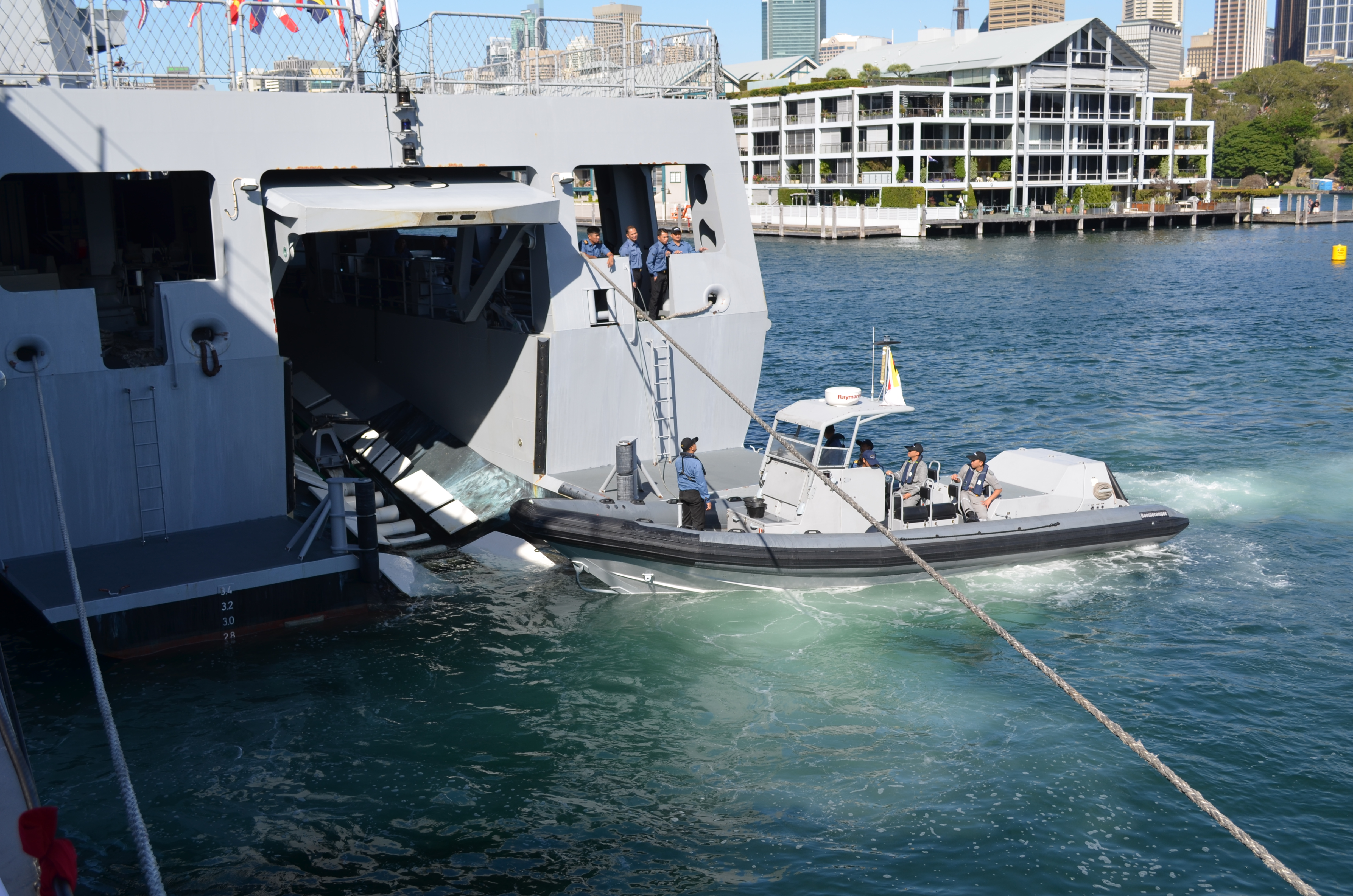 Photographs taken during day 5 of the Royal Australian Navy International Fleet Review 2013.Stern view of the Bruenian patrol vessel Darulaman, The ship's RHIB is deployed, and the RHIB well is open.